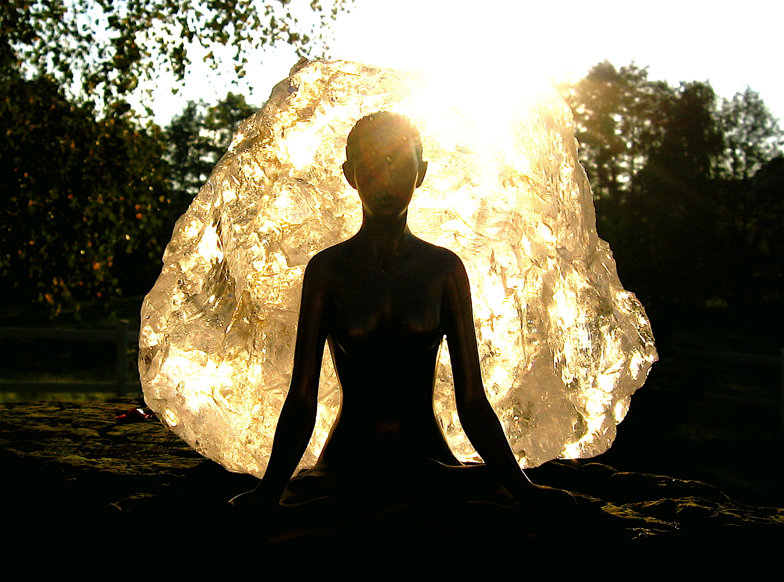 Stillness and clear mind, by Alice Popkorn Meditation in eastern philosophies: Hinduism, Buddhism, Jainism.